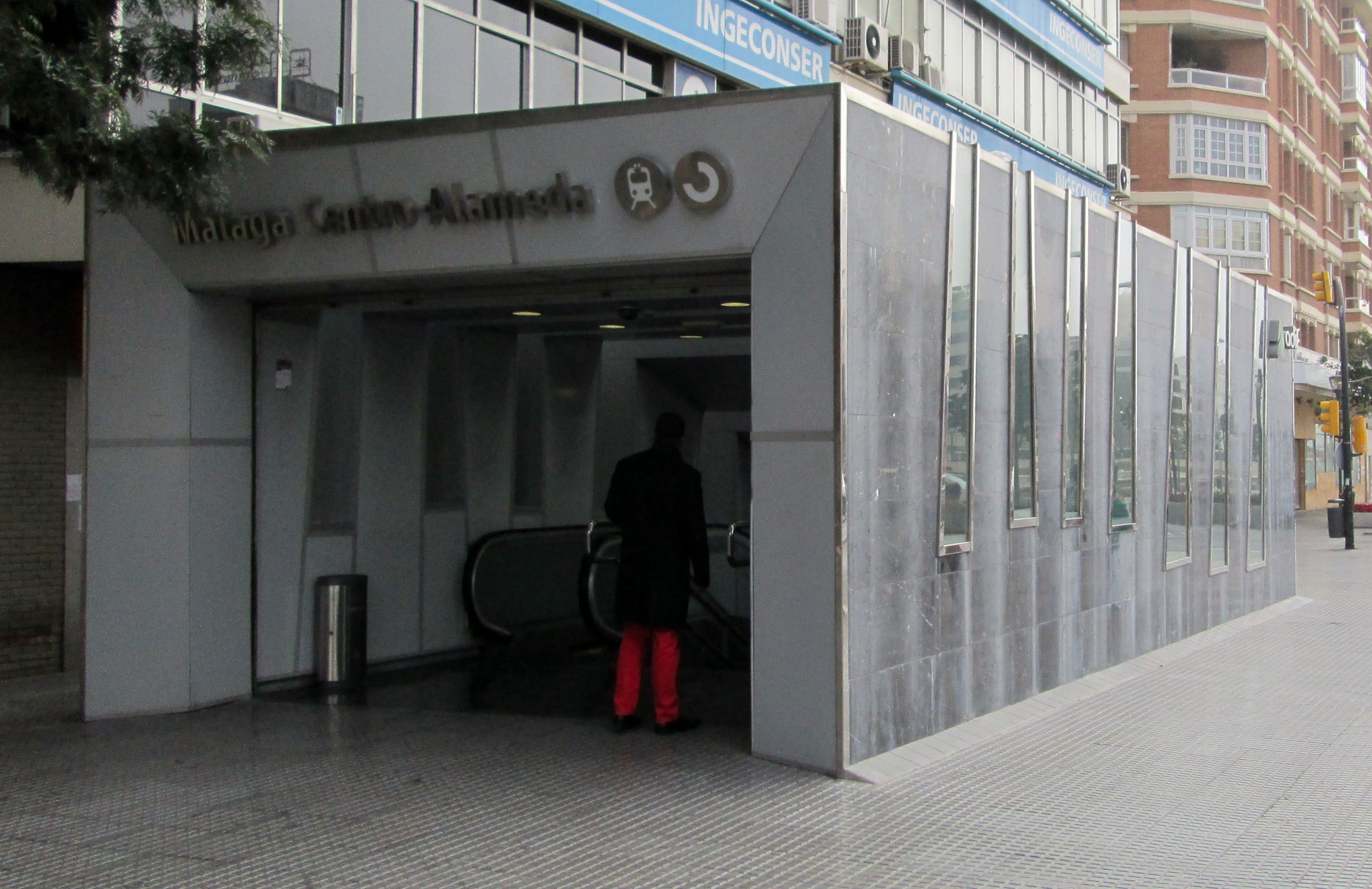 Estación Málaga Centro-Alameda1